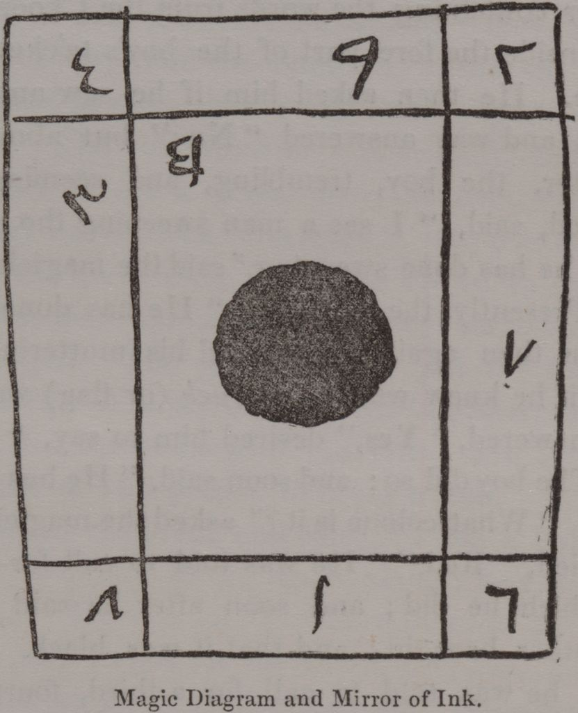 A diagram intended to cast a spell or perform magic. . Engraving (prints).